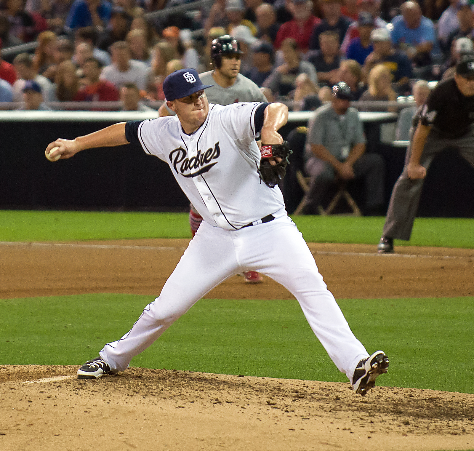 Brad Brach major league baseball pitcher for the San Diego Padres Sept. 11 2012 at Petco Park in San Diego California